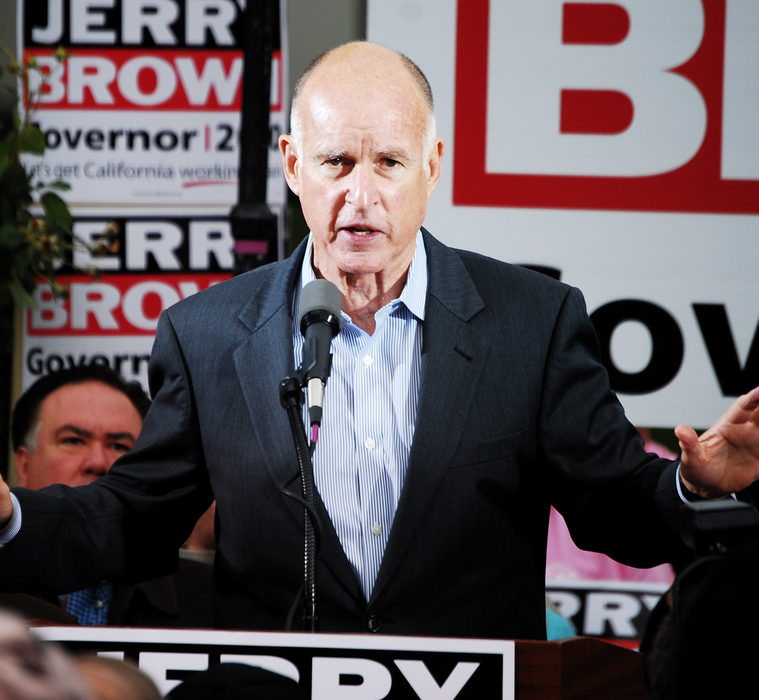 Jerry Brown rally in Victory Park, Stockton. Three days to go before the election & the push is on...